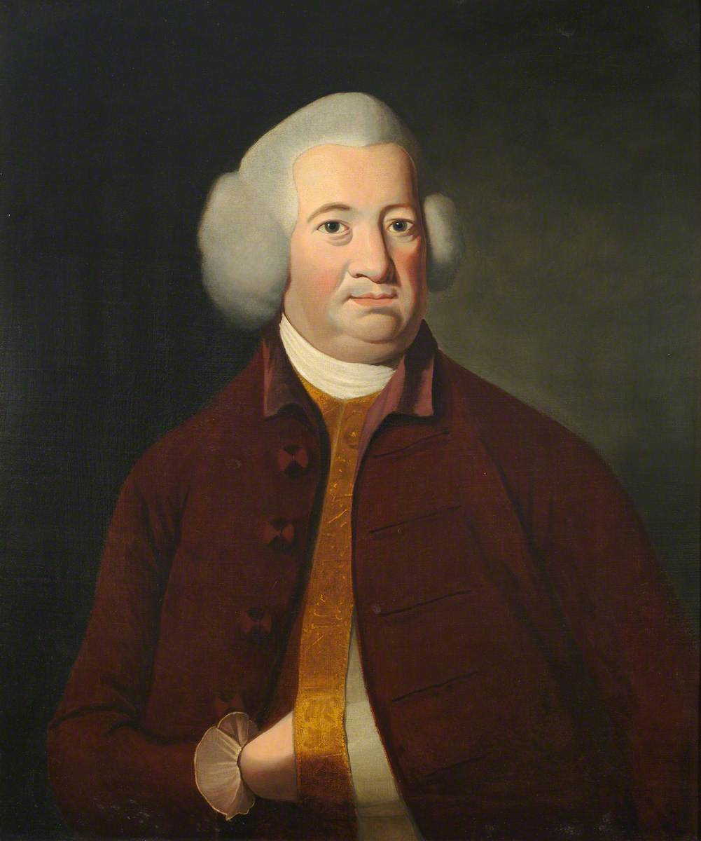 Thomas Fanshawe (1721–1797), 5th of Parsloes Manor House in Dagenham (demolished in 1925), painted ca. 1770. Fanshawe was the son of Thomas Fanshawe 4th and his wife Frances Clerke, and succeeded the tithe of Dagenham. He married in 1745 Ann Gascoyne, daughter of Sir Crispe Gascoyne, who was a brewer and the first Lord Mayor of London to live in the recently completed Mansion House in London. Courtesy of the collection of Valence House Museum, Dagenham.